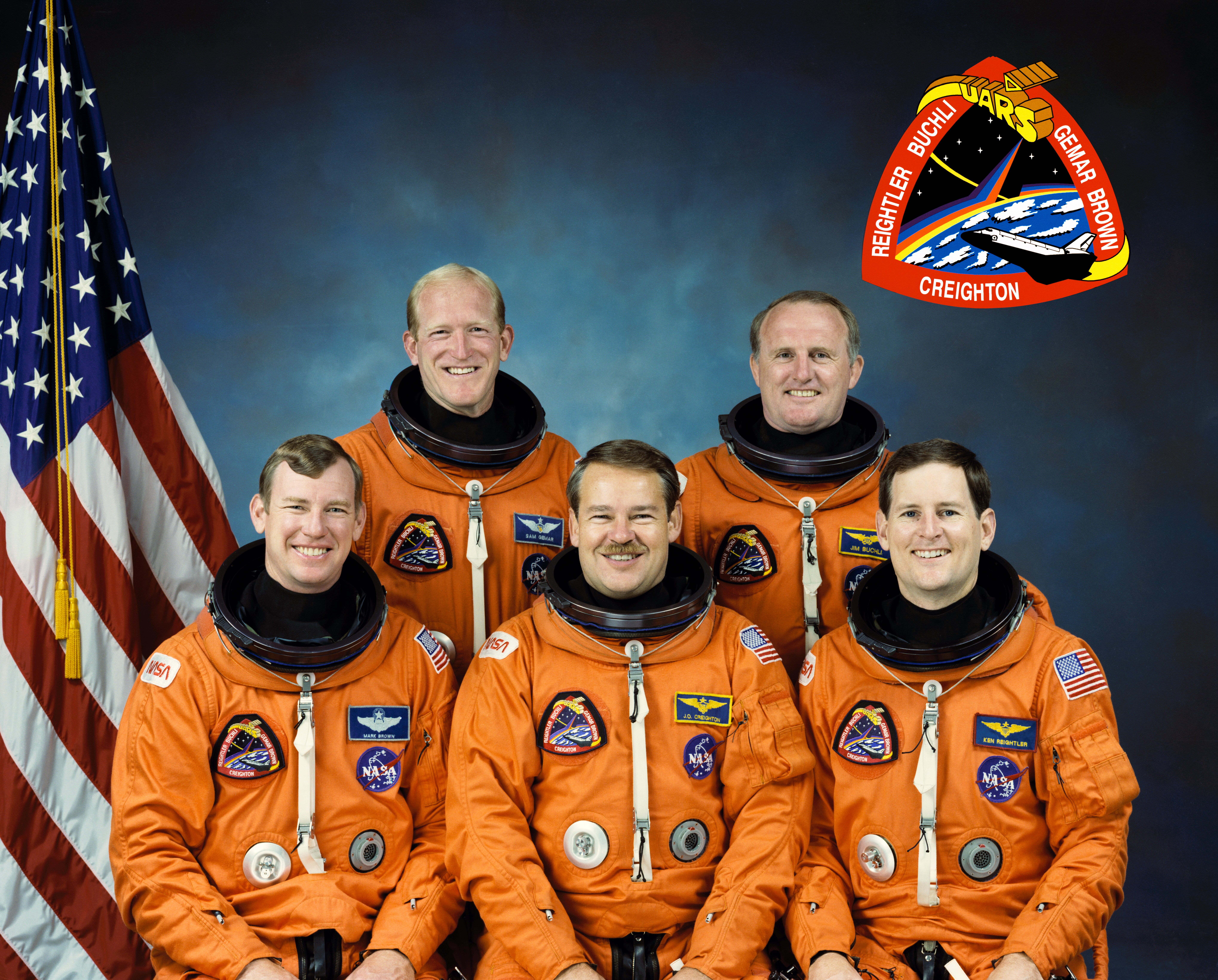 The STS-48 crew portrait includes (front row left to right): Mark N. Brown, mission specialist; John O. Creighton, commander; and Kenneth S. Reightler, pilot. Pictured on the back row (left to right) are mission specialists Charles D. (Sam) Gemar, and James F. Buchli. The crew of five launched aboard the Space Shuttle Discovery on September 12, 1991 at 7:11:04 pm (EDT). The primary payload of the mission was the Upper Atmosphere Research Satellite (UARS).